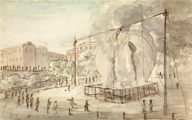 Watercolour of the hot air balloon of John Sheldon burning, putting an end to his attempted ascent of 25 September 1784. The place is Foley House, Portland Square, London.